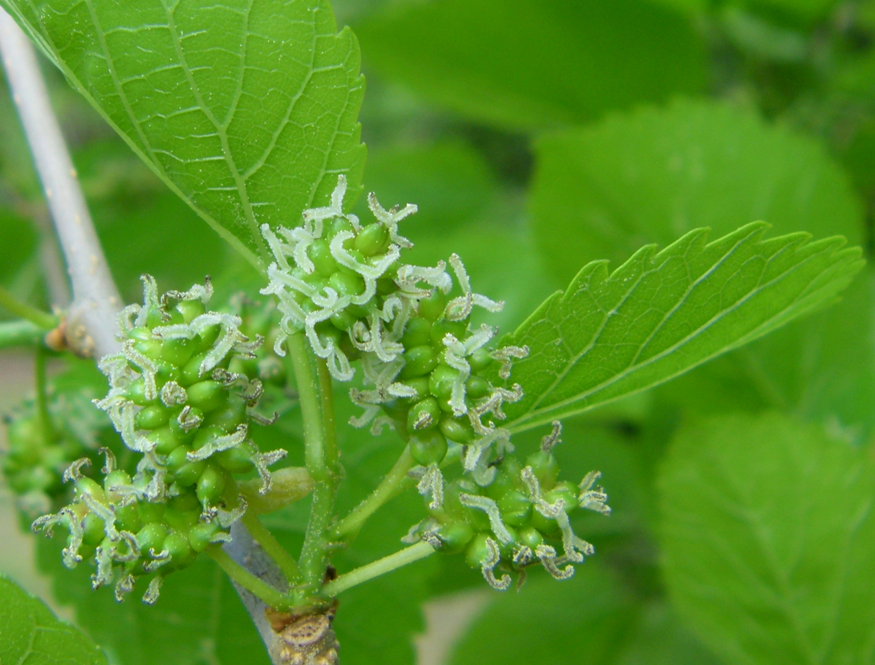 Mulberries during fertilization--note some pollen receptors are still active while others have received pollen and wilted.